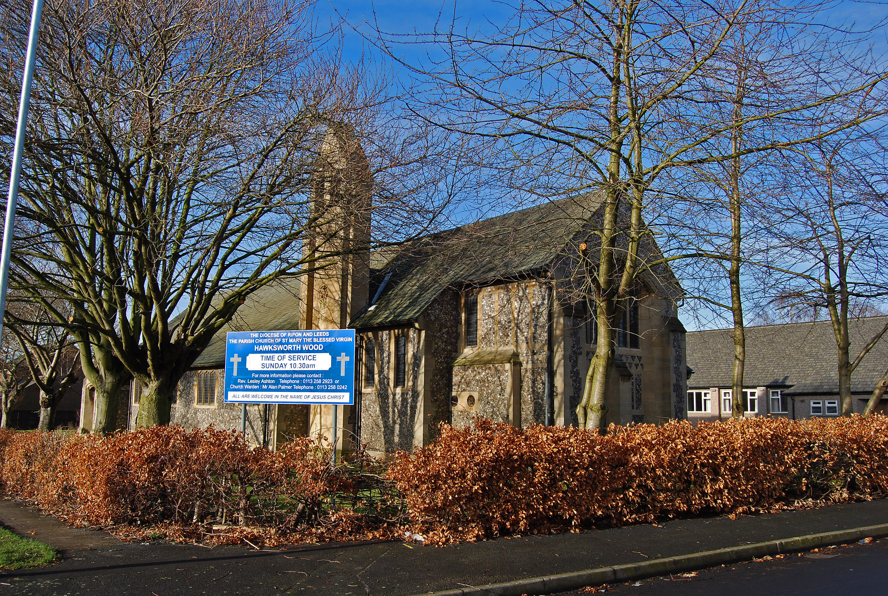 St Mary's parish church, Hawkswood Avenue, Hawksworth, Leeds, West Yorkshire, seen from the southeast